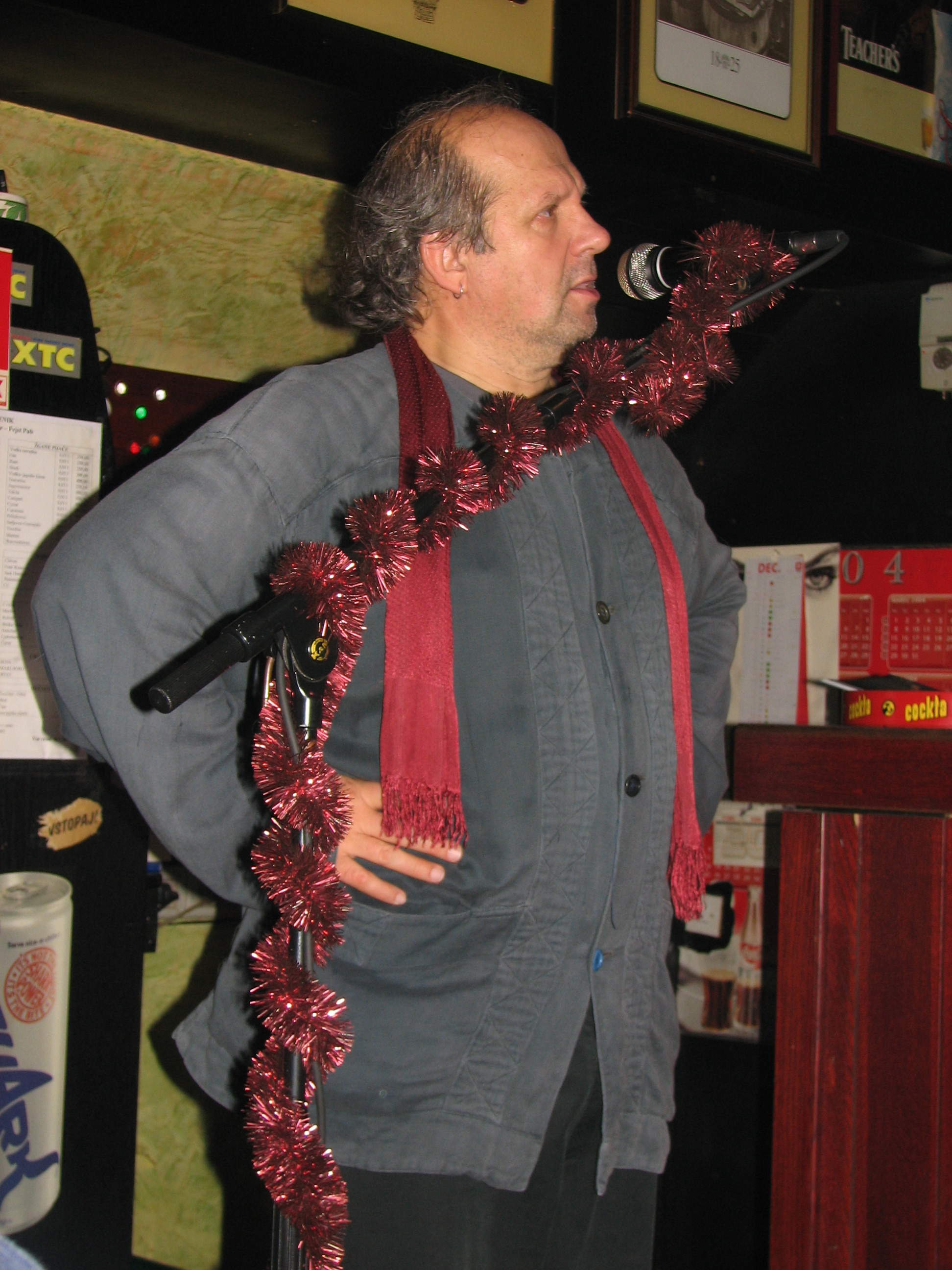 Actor Zijah Sokolović during the performance of Cabares Cabarei. Picture taken (talk) in Fejst Pub, Zagorje.